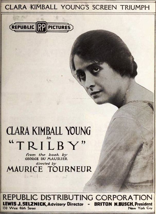 Advertisement for the 1920 reissue of the American film Trilby (1915) with Clara Kimball Young, on page 9 of the February 7, 1920 Exhibitors Herald.